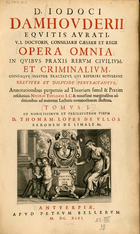 Opera omnia, praxis rerum civilium [Tome 1].apud Petrum Bellerum. Reference work (1554) for jurists by Joos de Damhouder (1507-1581), re-published by Petrus Bellerus (Antwerp, 1646)